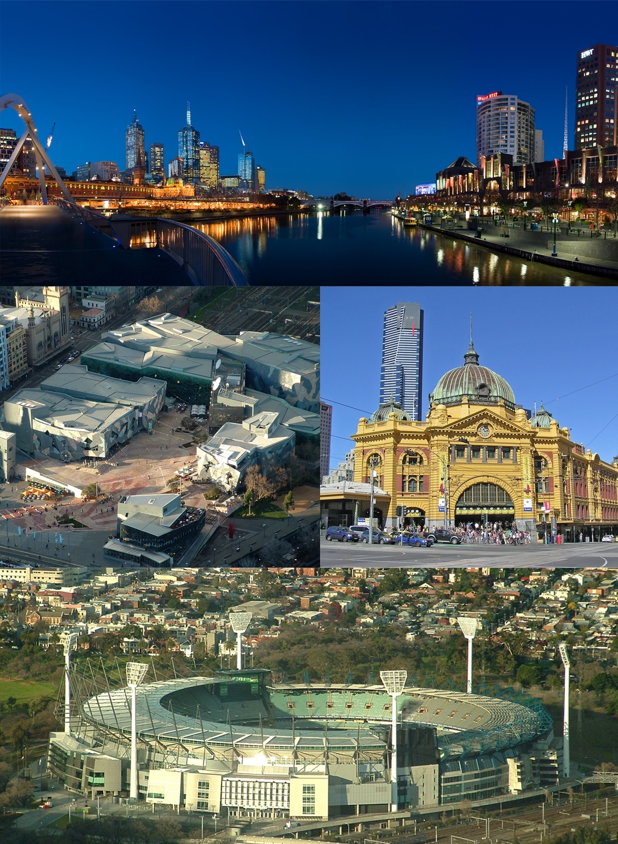 Images, from top, left to right: Top - Skyline and Southbank from - Image:Melbourne yarra twilight.jpg Middle left - Federation Square from - Image:Fed Square August 2007.jpg Middle right - Flinders Street Station from - Image:Melbourne Flinders St. Station.jpg Bottom - Melbourne Cricket Ground from - Image:MCG August 2007.jpg